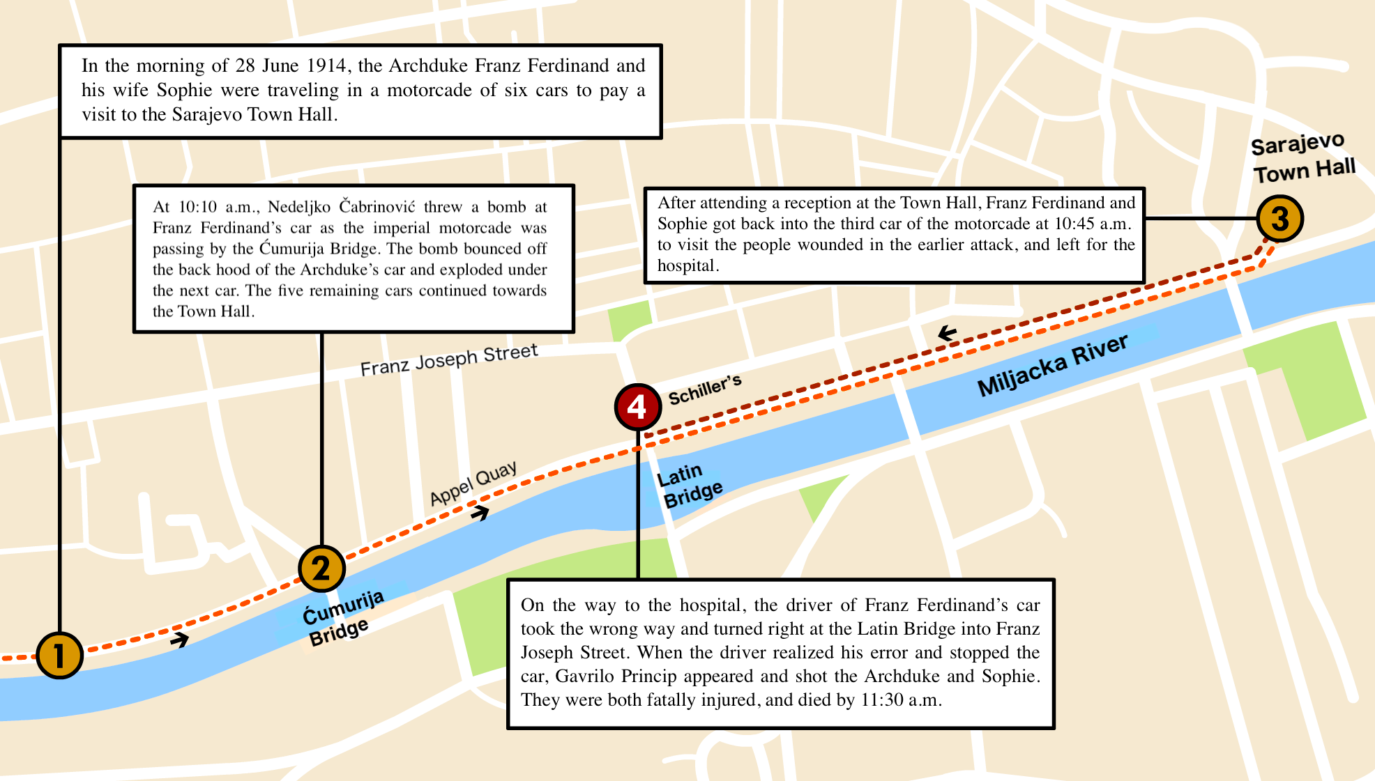 This file is an English-language version of"Atentado de Sarajevo.png" created by Hmaglione10